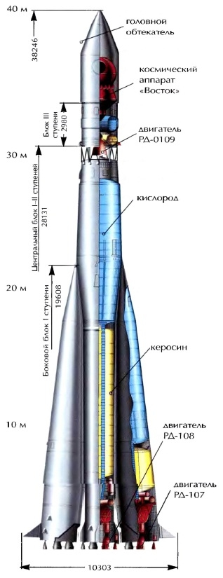 R-7 Vostok